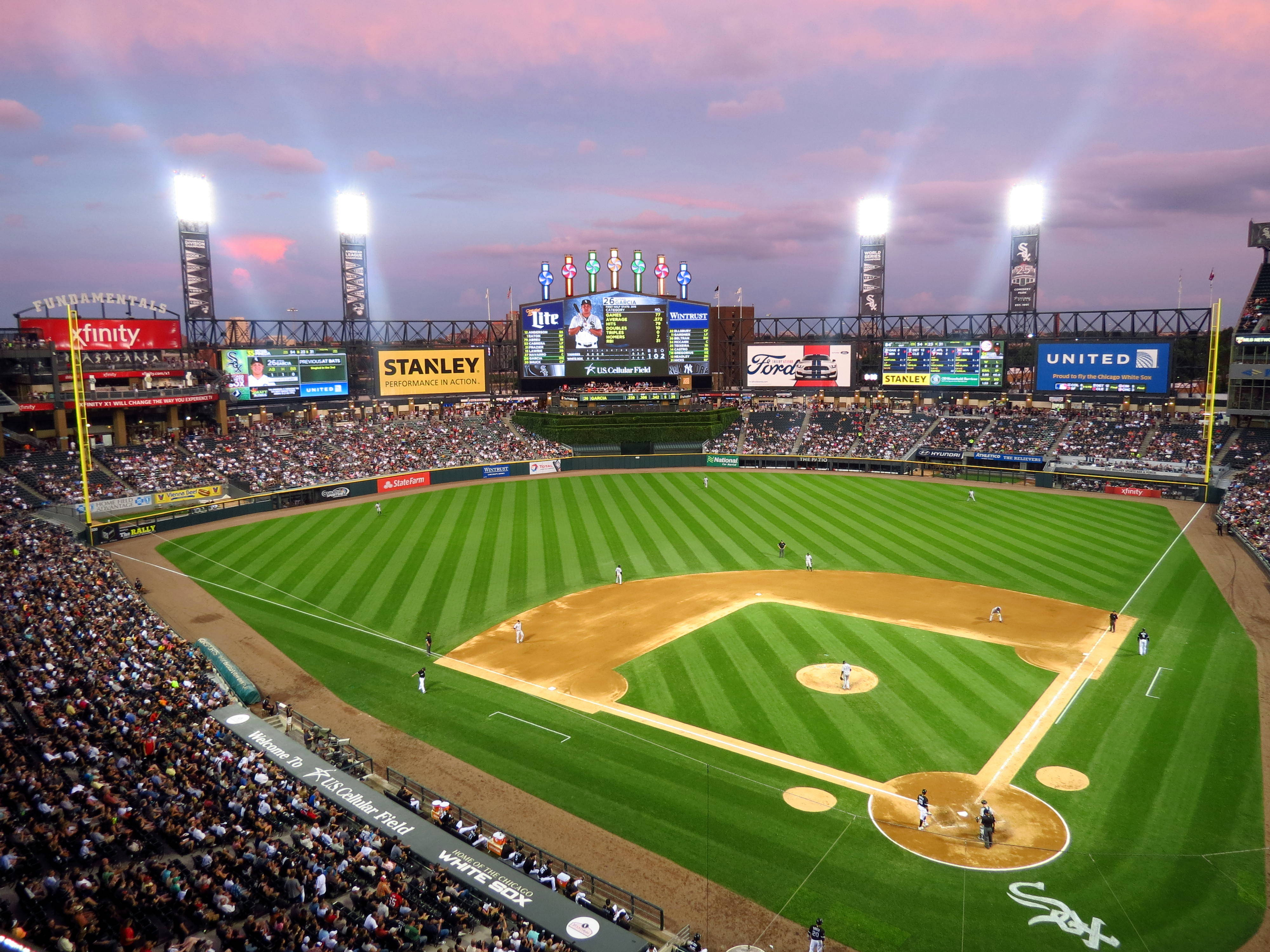 New York Yankees at Chicago White Sox